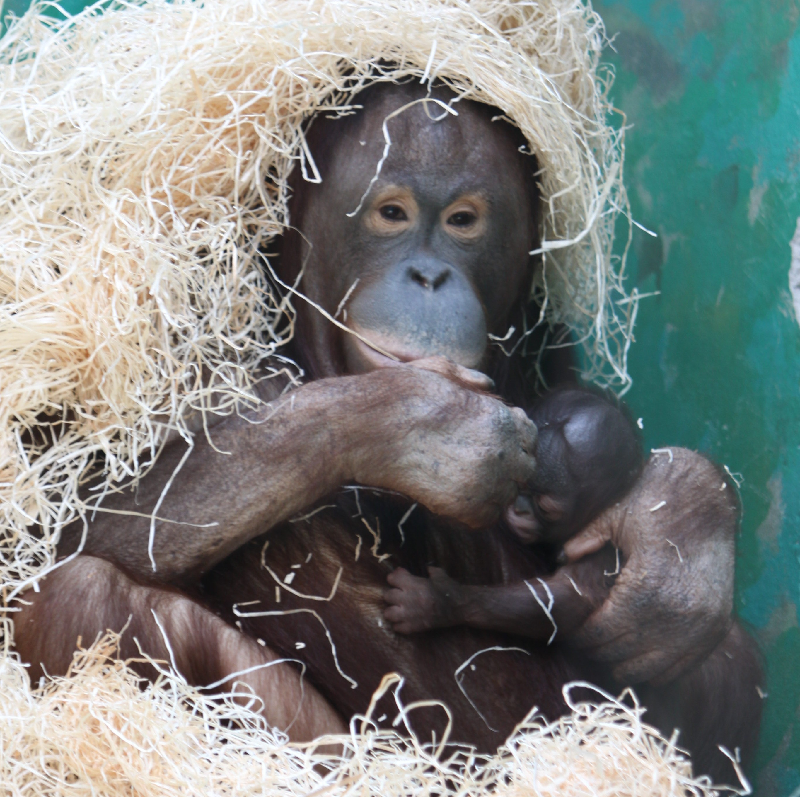 One-week old male baby Bornean orangutan with her mother Nanga at the Bojnice Zoo May 25, 2009